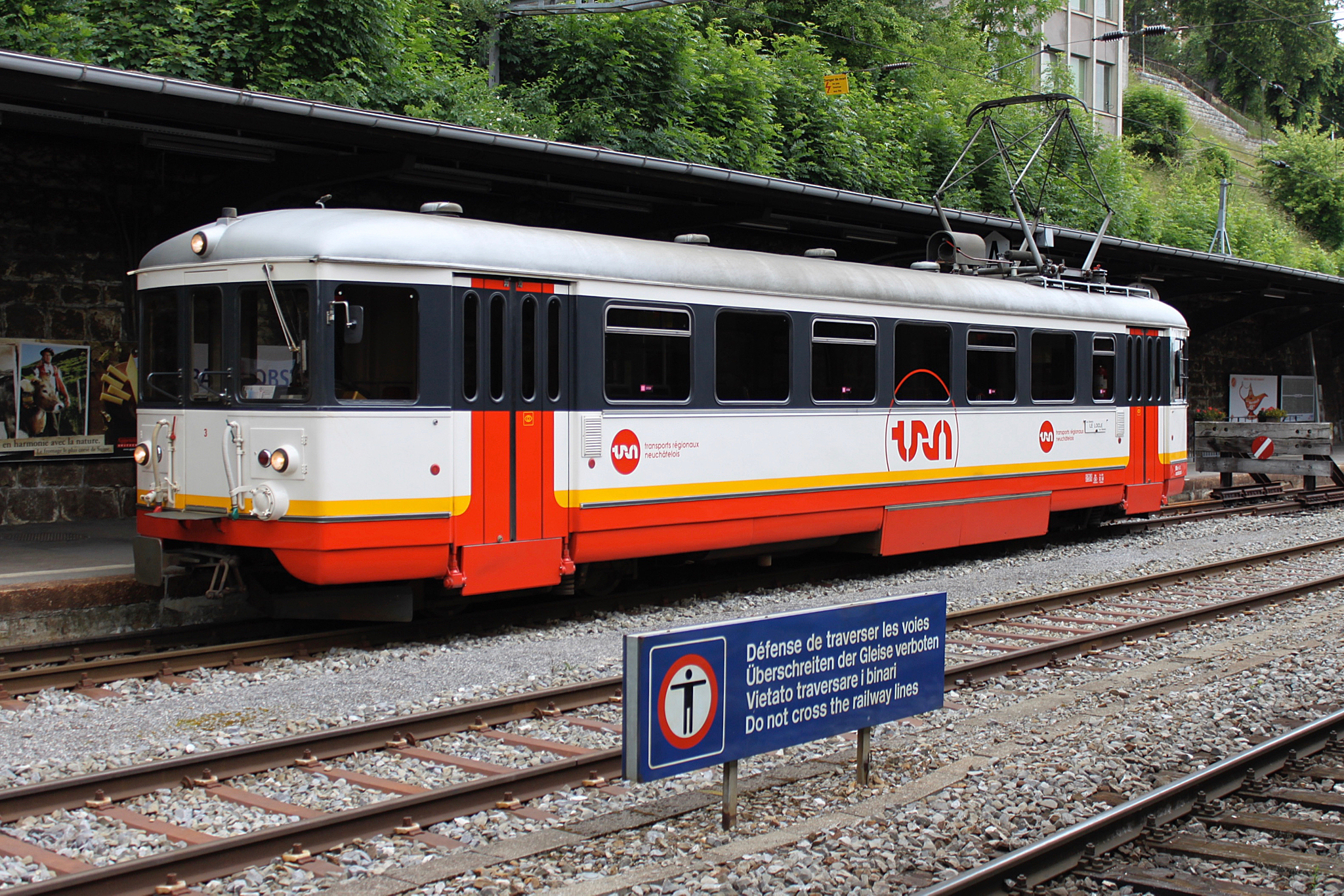 TRN BDe 4/4 3 at Le Locle train station.